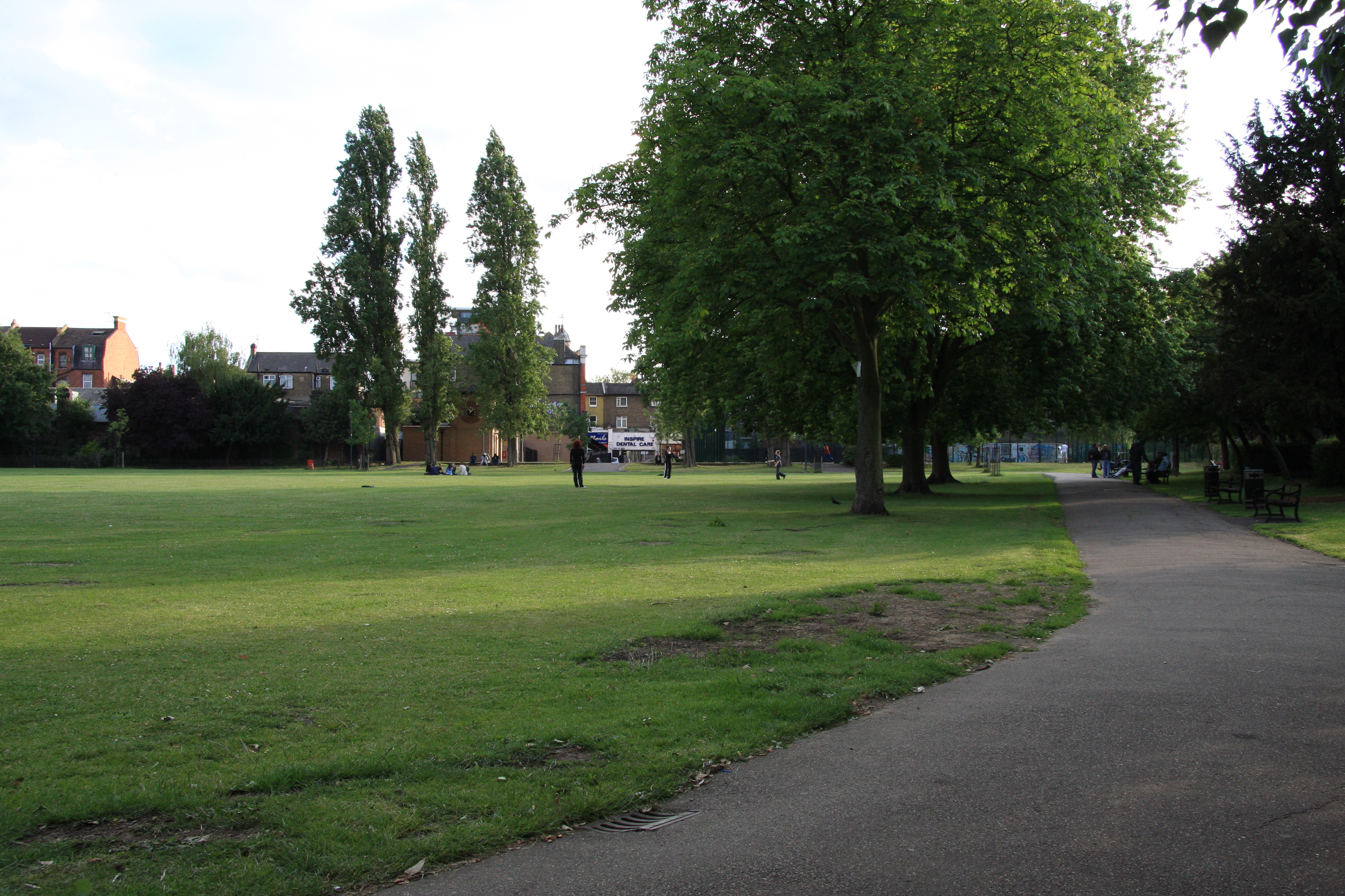 Kilburn, London, June 2009.